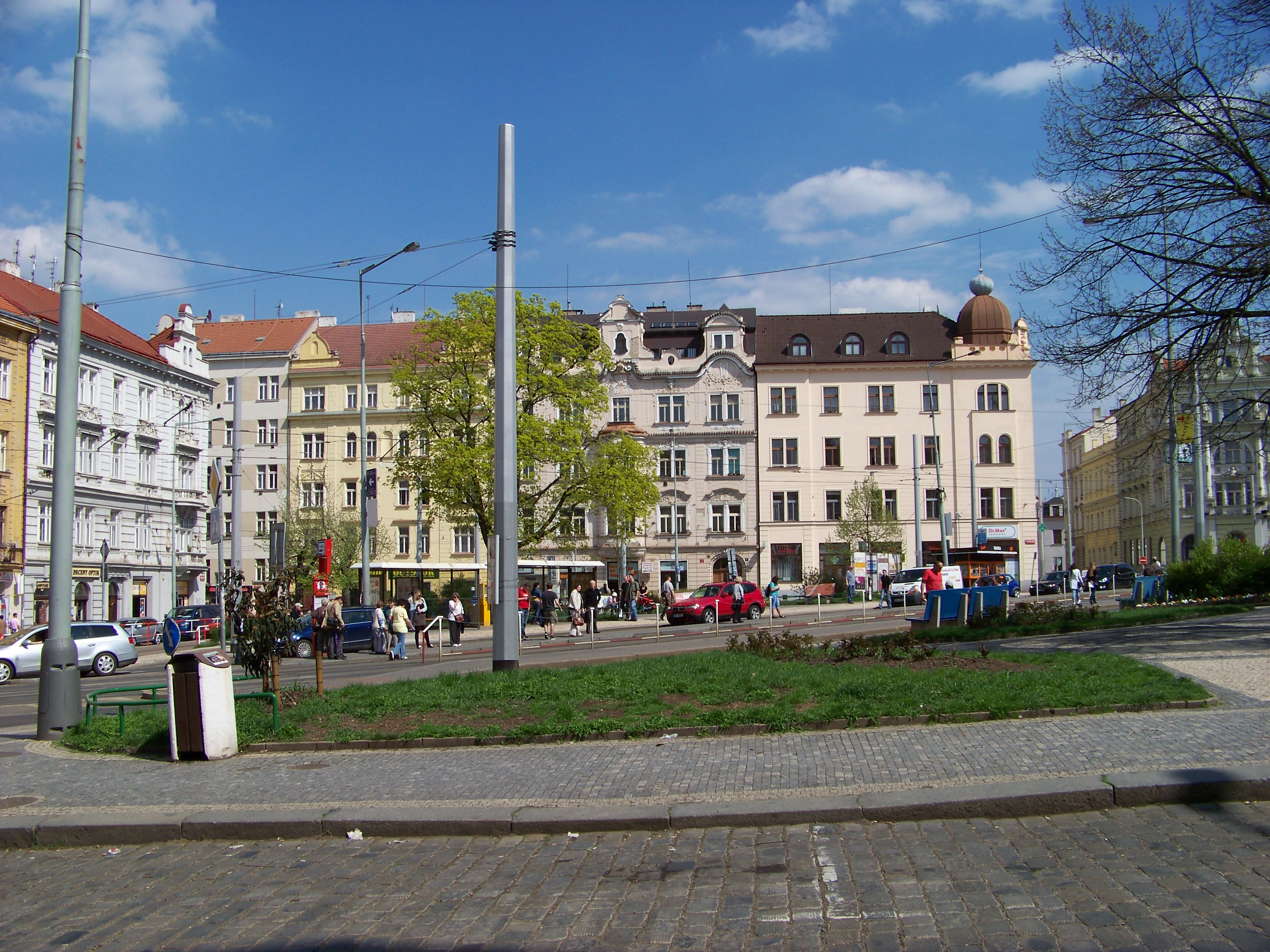 Prague-Nusle, the Czech Republic. Náměstí Bratří Synků.